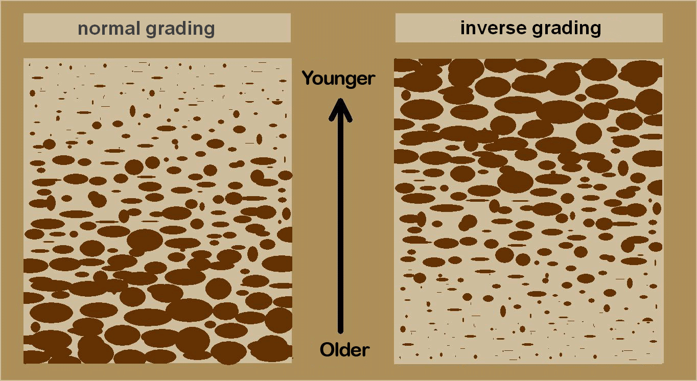 Diagram comparing grain size distribution in normal and inverse graded bedding